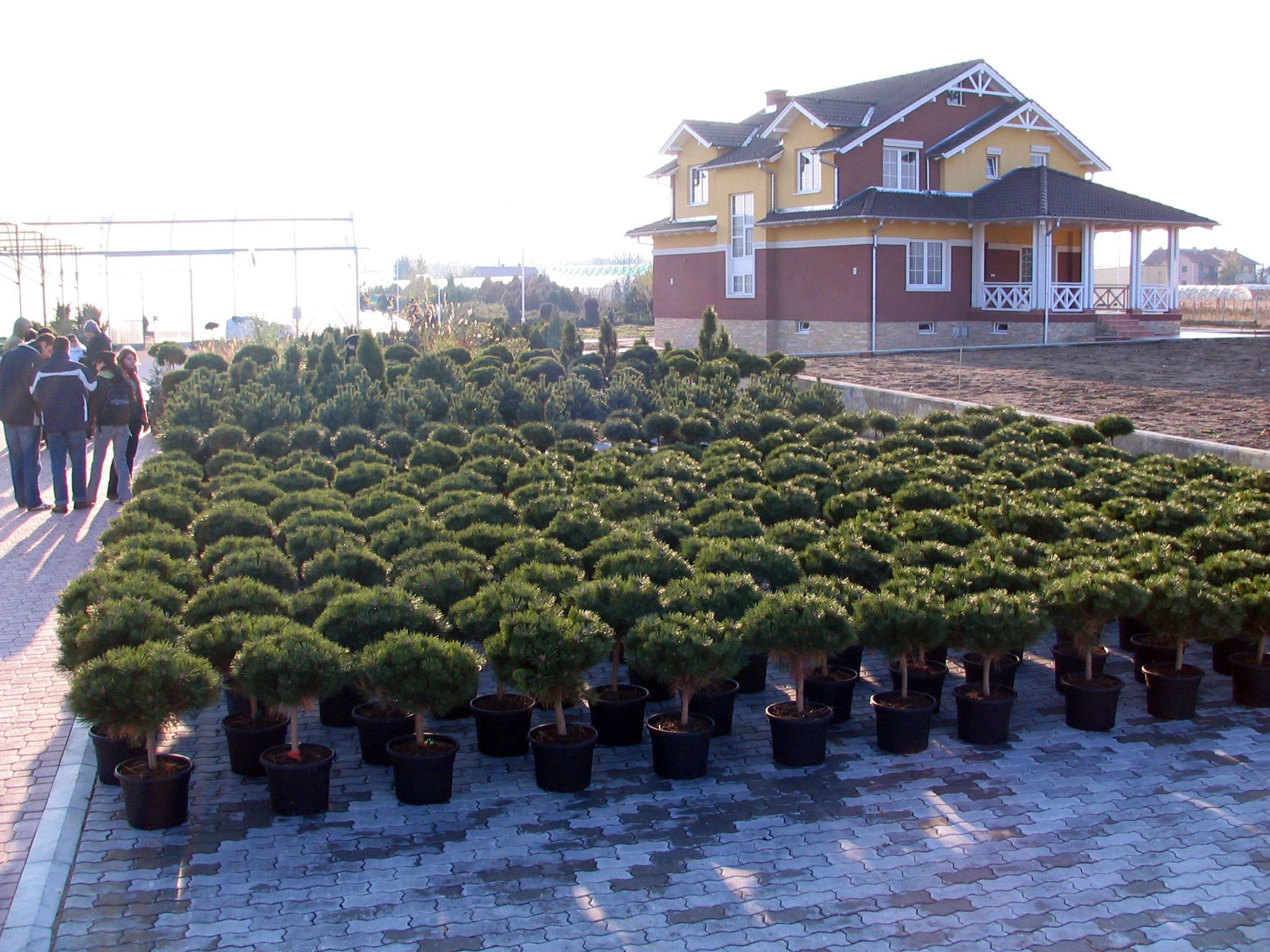 Serbian nursery Manojlovic, Pocekovina 2010 (photo: Mihailo Grbić)